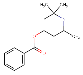 β-Eucaine (betacain), a local/topical anesthetic (sodium channel blocker)